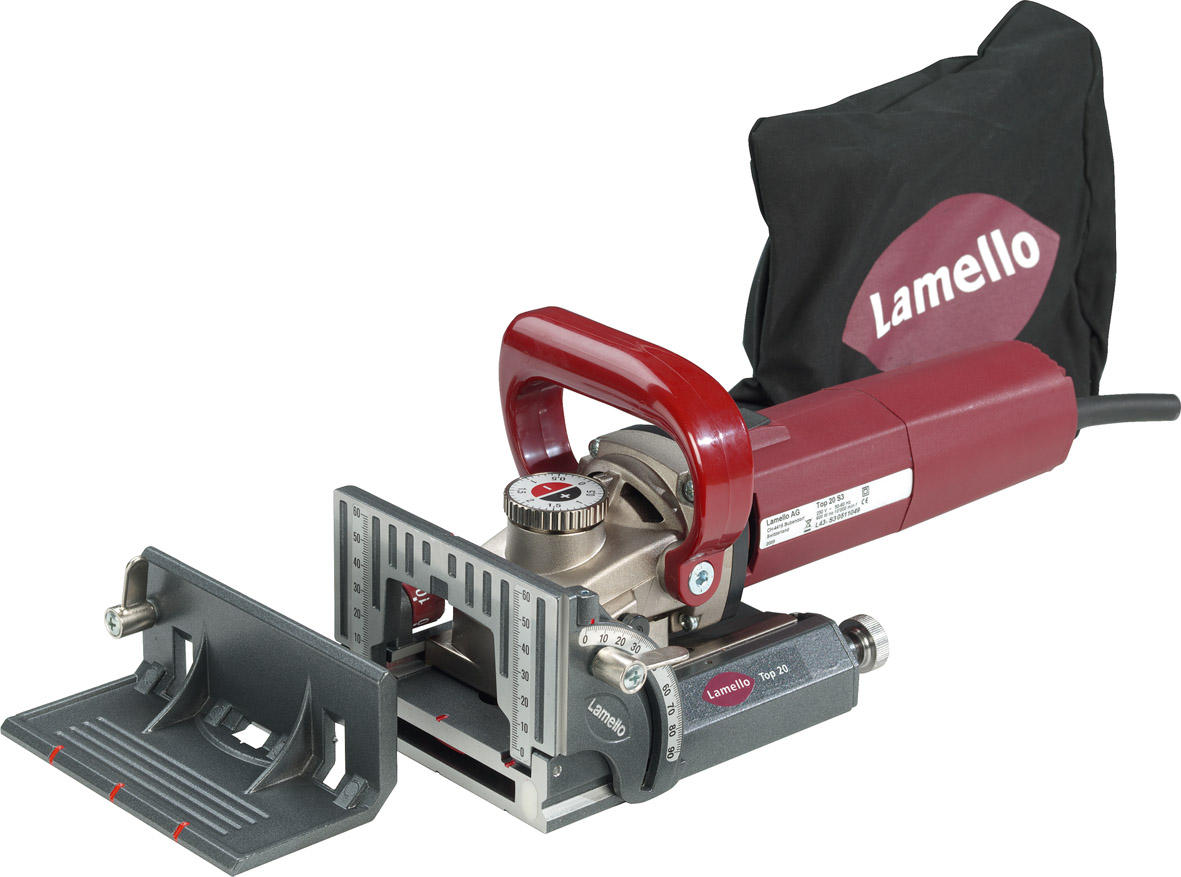 The biscuit joiner Lamello Top20 S3 with dustbag, made in Switzerland.